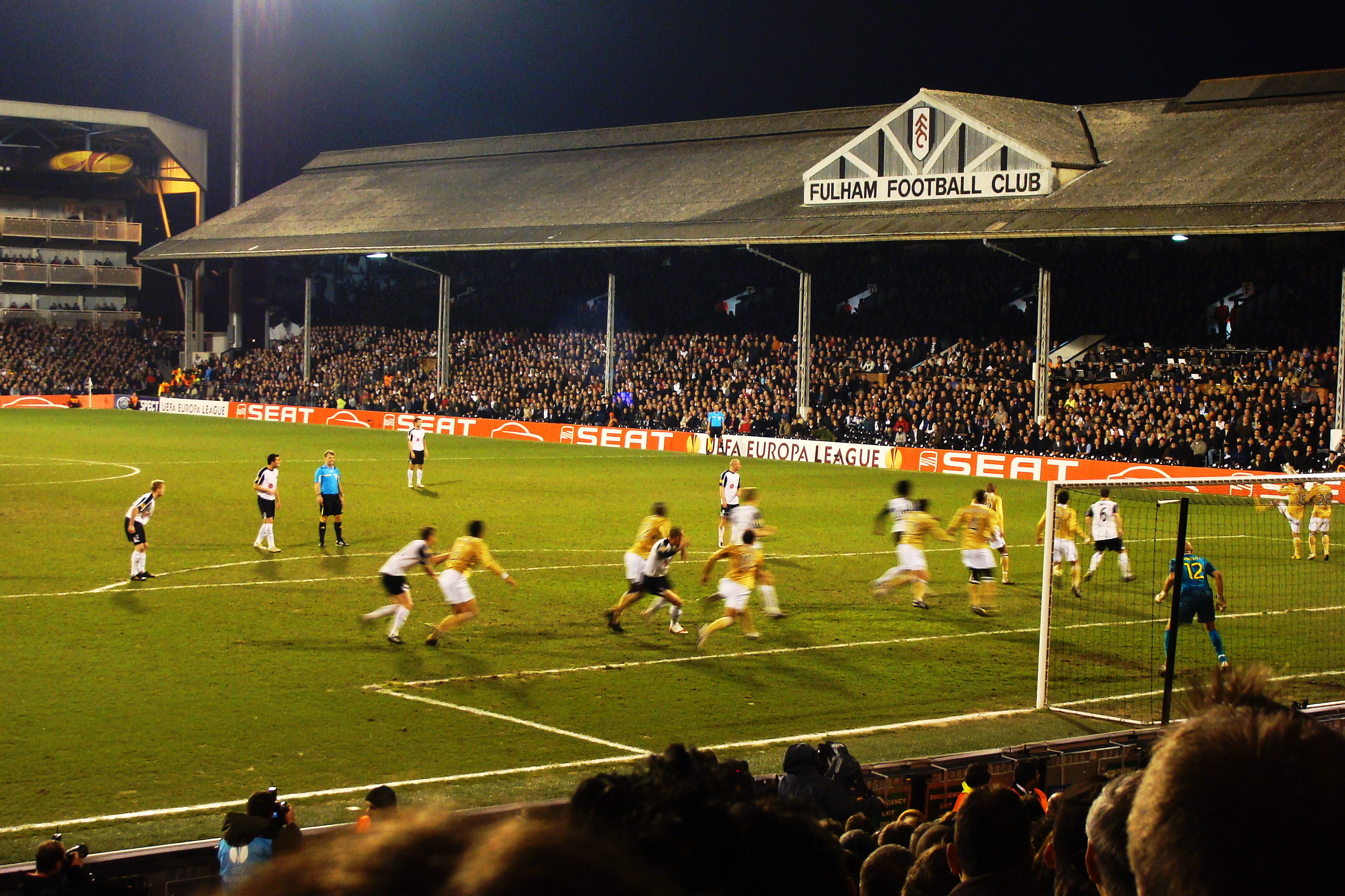 Fulham FC vs Juventus FC, Europa League, 18 March 2010